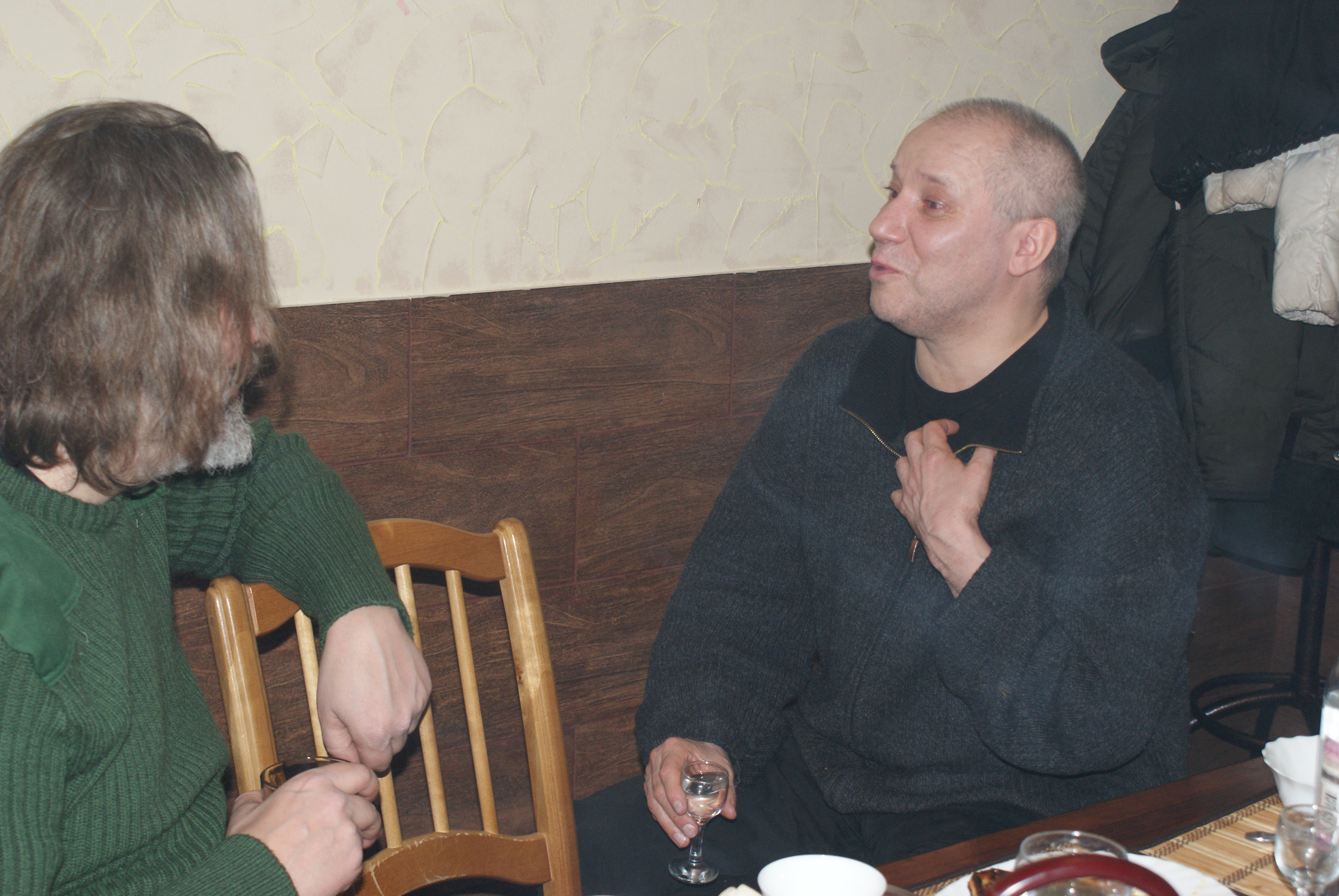 Playwright Vadim Levanov and poet Vsevolod Emelin for dinner in a country cafe "Lesnaya skazka" after a poetic evening Emelina in Togliatti. 26 February 2011